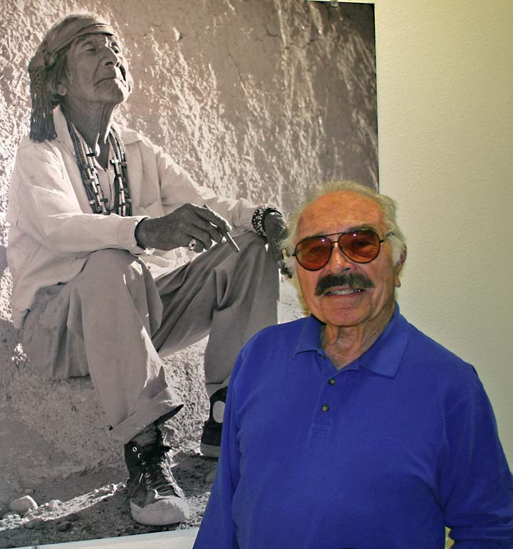 I,the contributor, took this photograph myself. Acclaimed Laguna photographer Lee Marmon stands next to an enlarged version of his most well-known image, "White Man's Moccasins" (1954) at the Native American Cultural Center in Albuquerque, New Mexico (February, 2006)